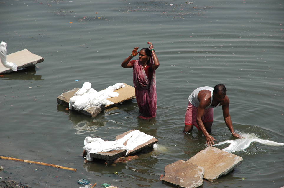 Washing in Ganga (Ganges) River, India